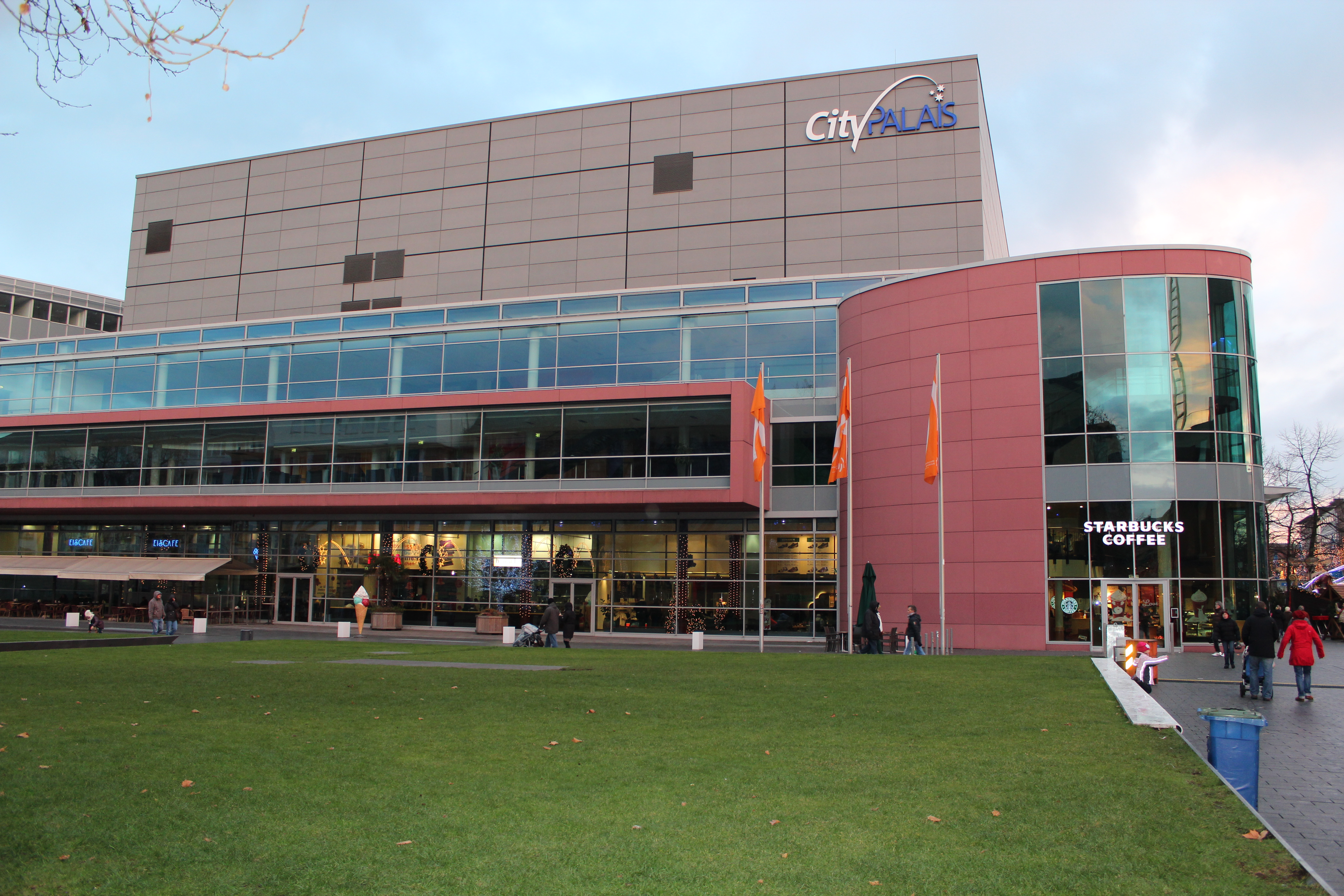 CityPalais in Duisburg